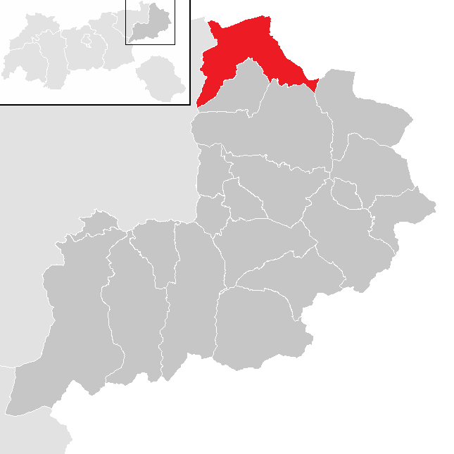 District Kitzbühel